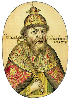 Ivan IV. Portrety, gerby i pechati Bolshoi gosudarstvennoi knigi 1672 g. [Portraits, Coats of Arms and Official Seals in the Great State Book of 1672] St. Petersburg: Izd-vo Peterburgskgoi arkheologicheskago instituta, 1903 NYPL, Slavic and Baltic Division